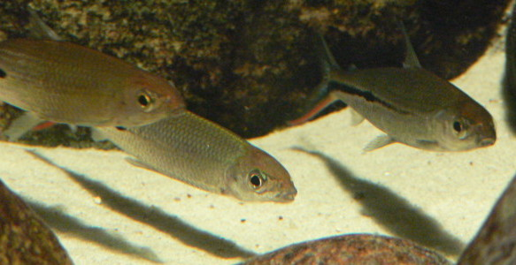 Author: User:Haplochromis. Species is Hemiodus gracilis